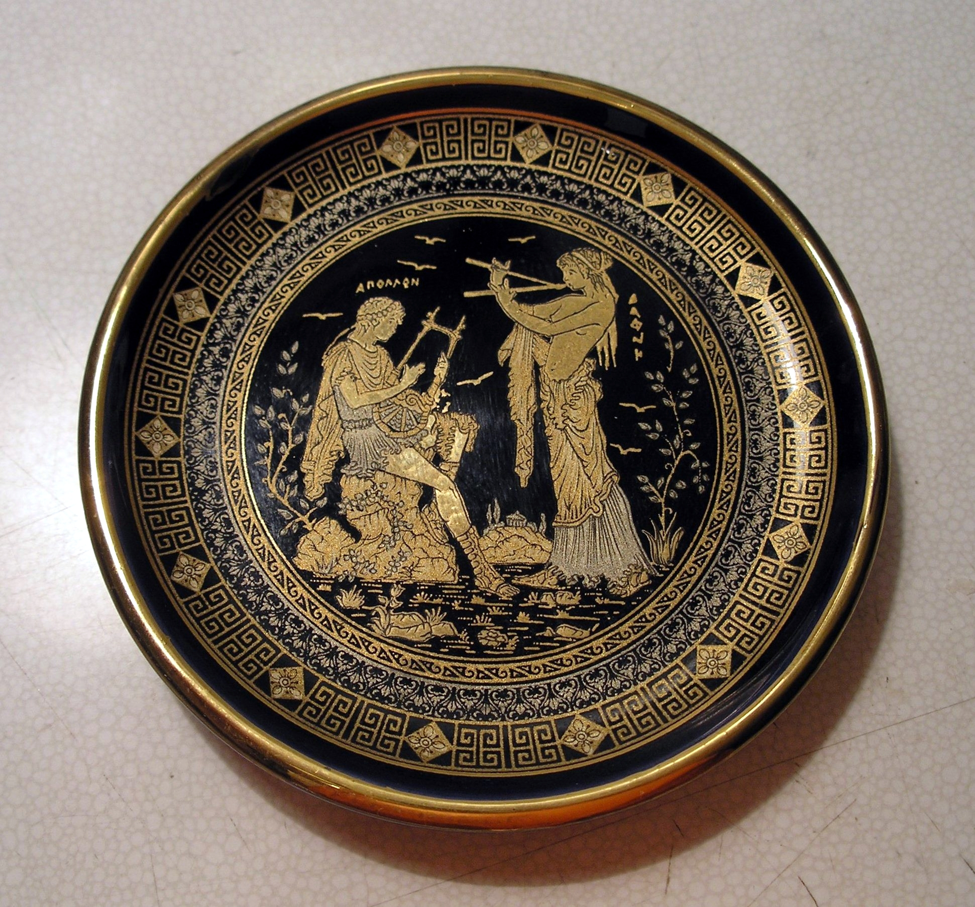 Apollo on a Greek-made plate